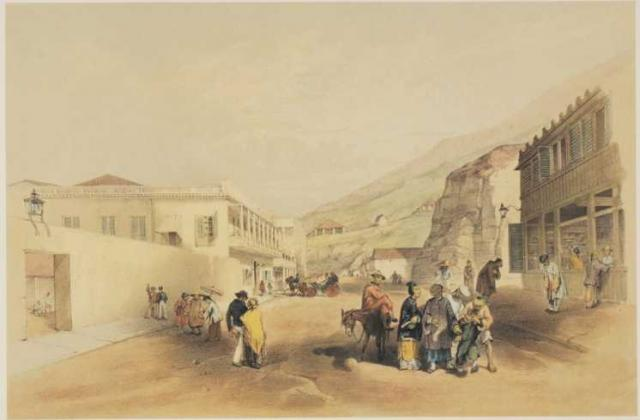 Queen's Road Looking East from the Canton Bazaar